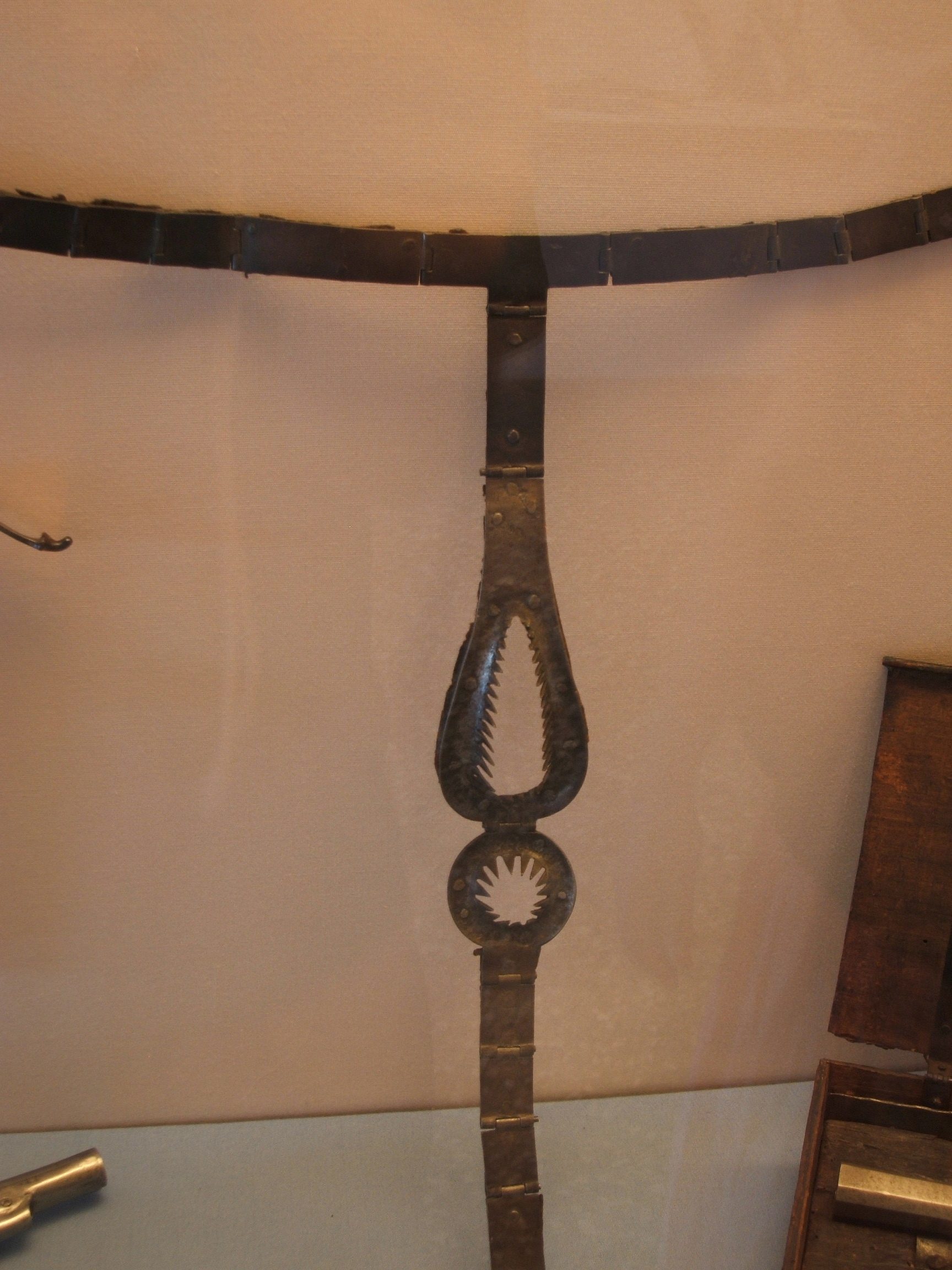 Venetian chastity belt (I can't remember the age in the label, possibly 16th century?), taken in the Doge's Palace in July 2006 by me —Steven G. Johnson. (Note that no "old" chastity belt specimens in European museums have been proven to date from before the late 16th century or 17th century, while some are outright 19th century forgeries.)